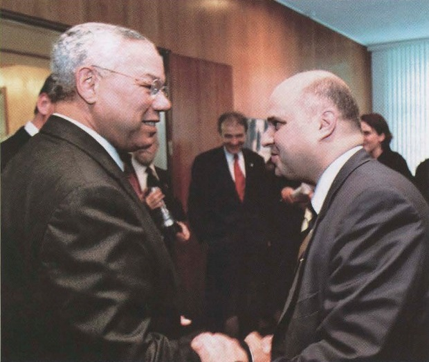 This photo represents the relations between the United States and the United States